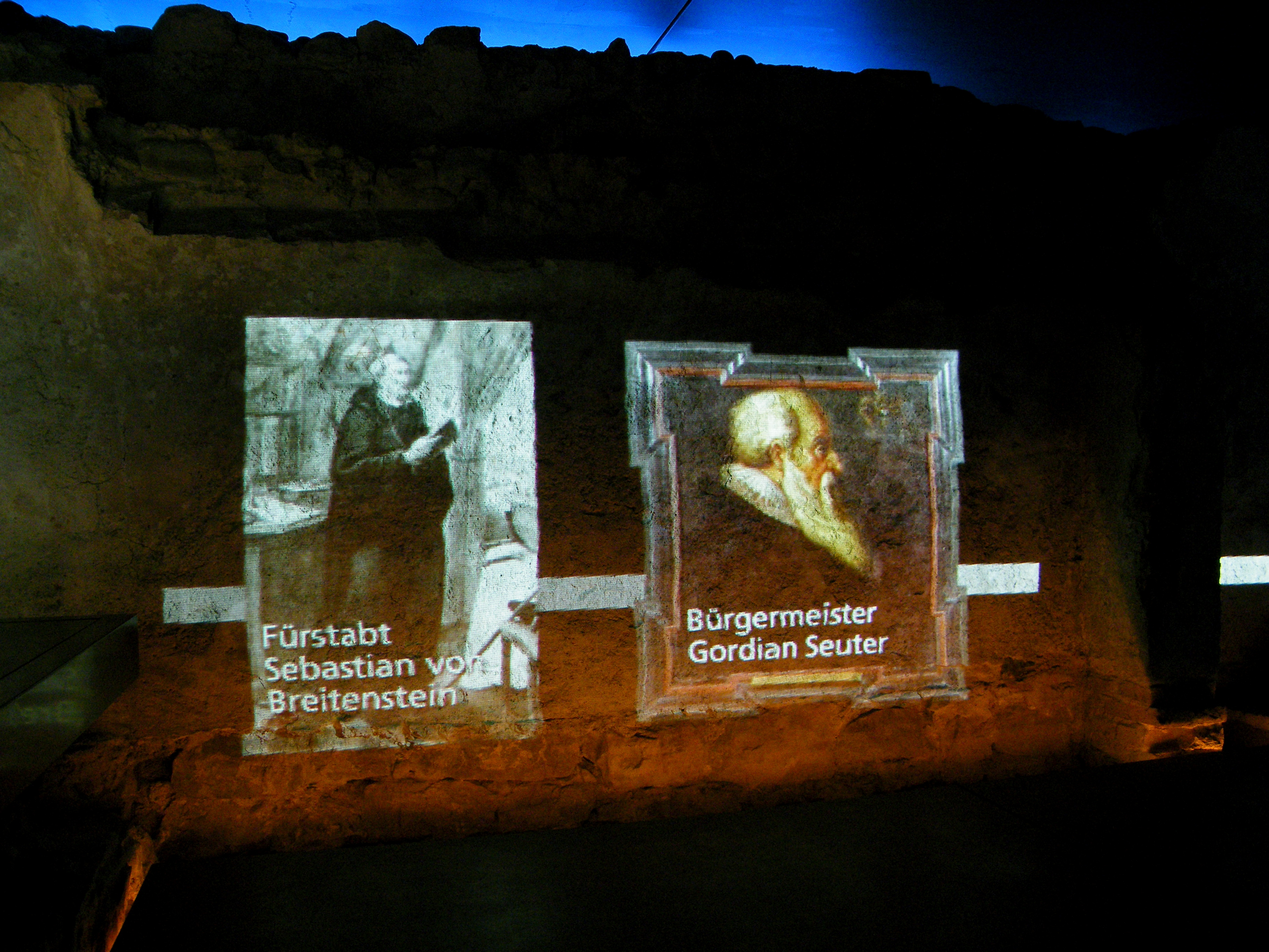 Erasmuskapelle Kempten. Pictures are older than 100 years. The authors are unknown.